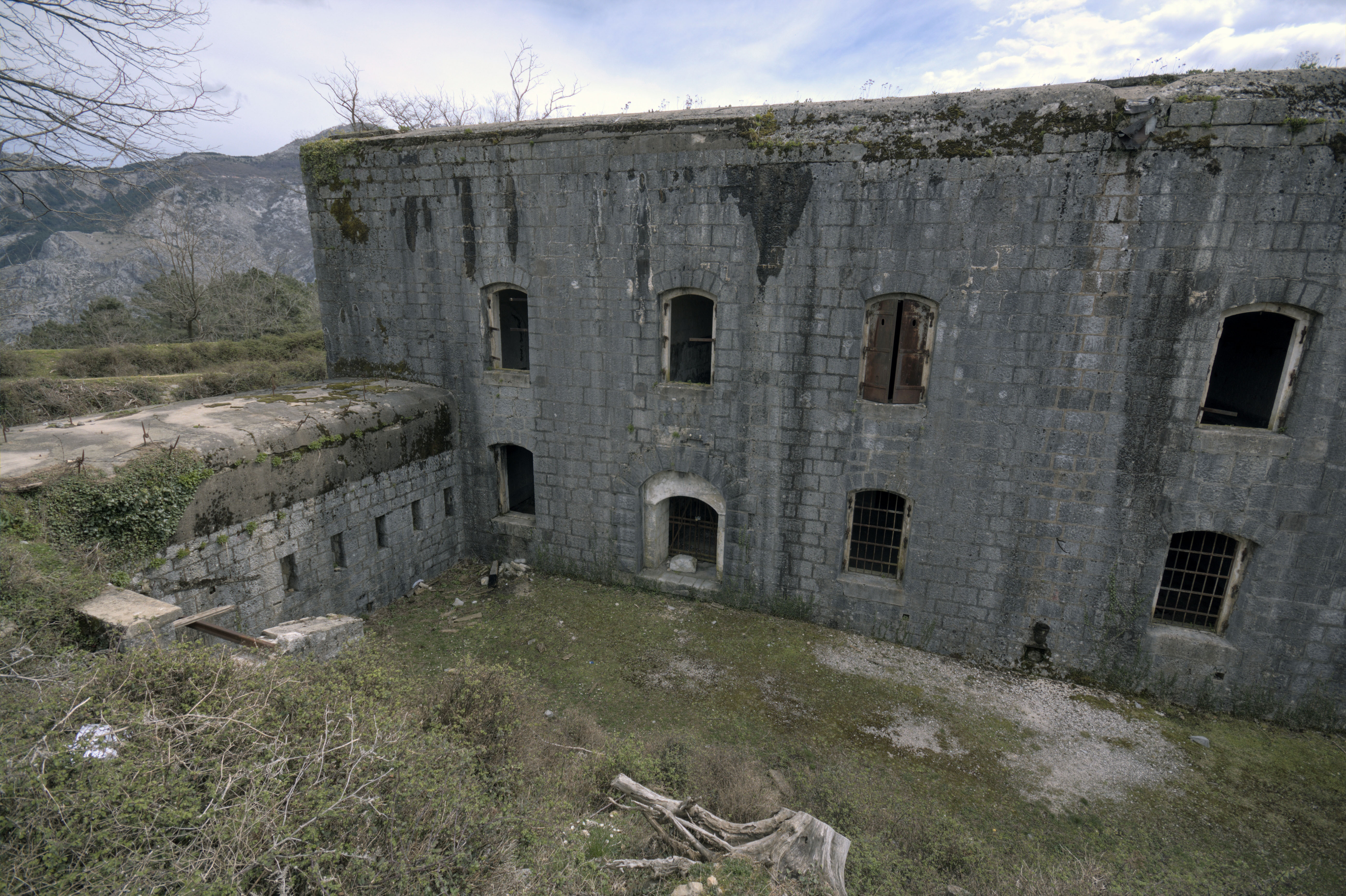 Entrance and caponier at Vrmac fortress near Kotor, Montenegro